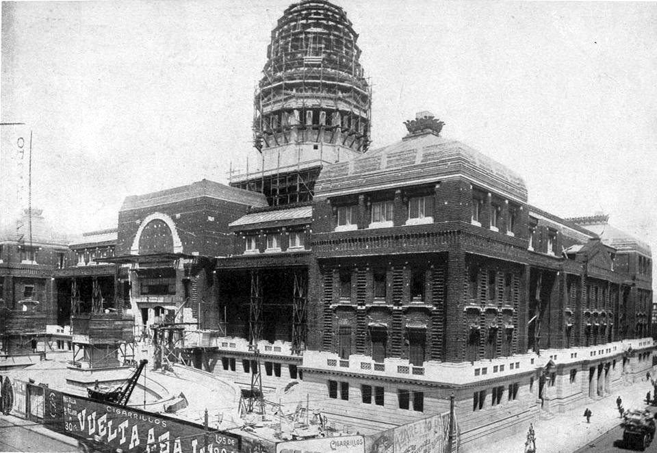 The Congress of Argentina building during its construction.